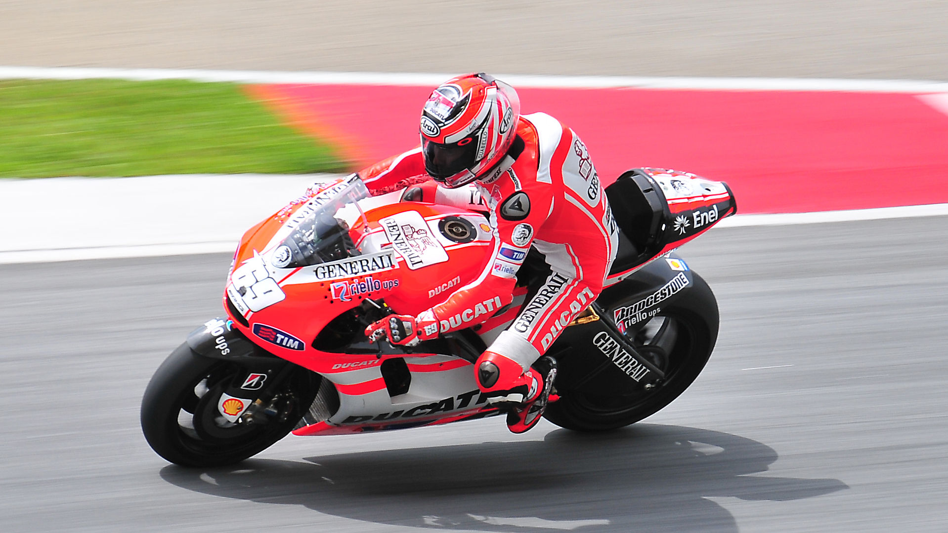 Nicky Hayden - Ducati